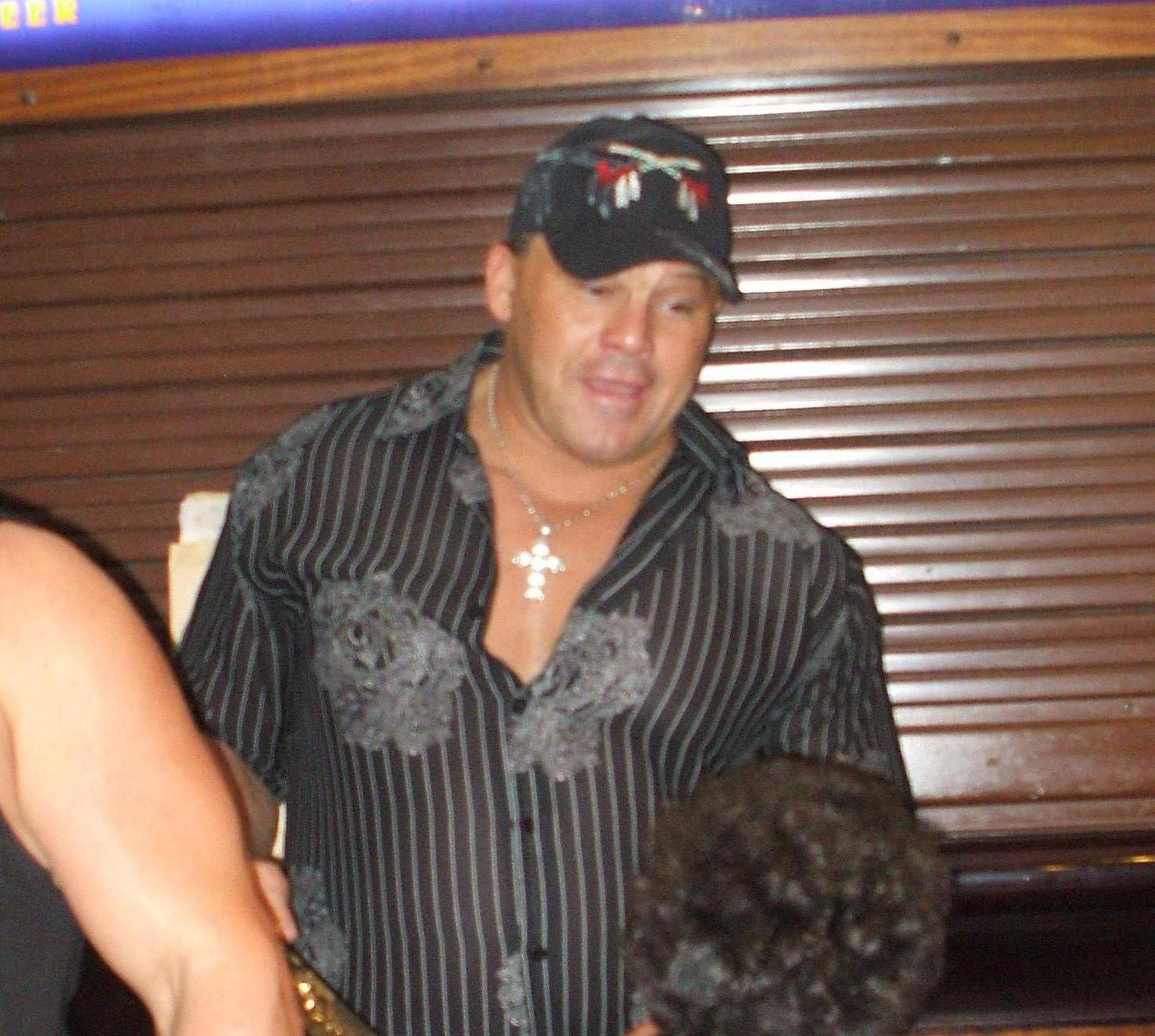 catcheur chris chavis dit tatanka